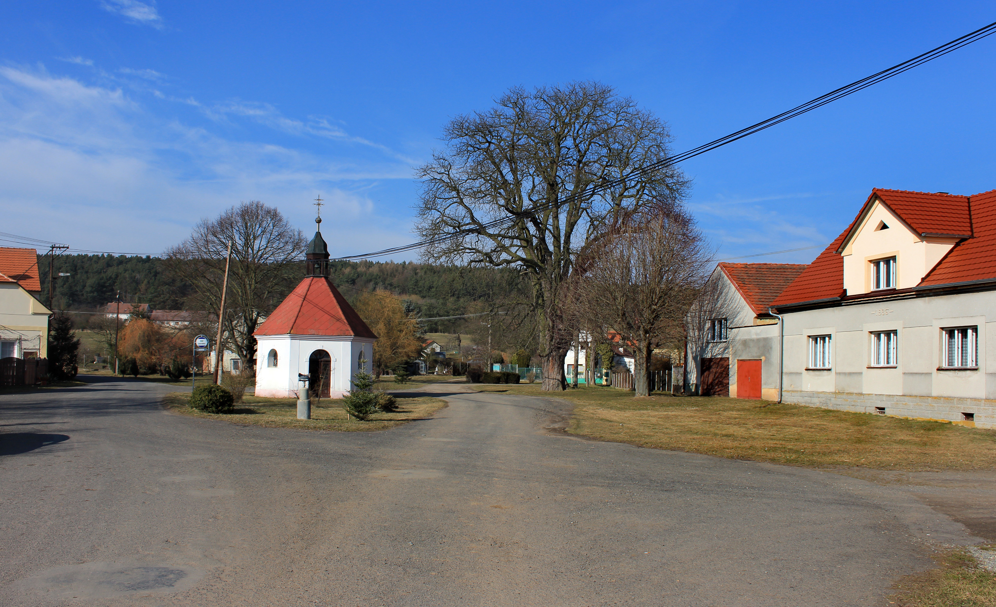 Common in Kbelany, Czech Republic.